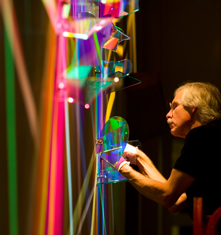 Photograph of artist Stephen Knapp at work on one of his lightpaintings.